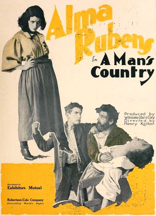 Ad for the American film A Man's Country (1919) with Alma Rubens and Alan Roscoe, on page 671 of the July 19, 1919 Motion Picture News.